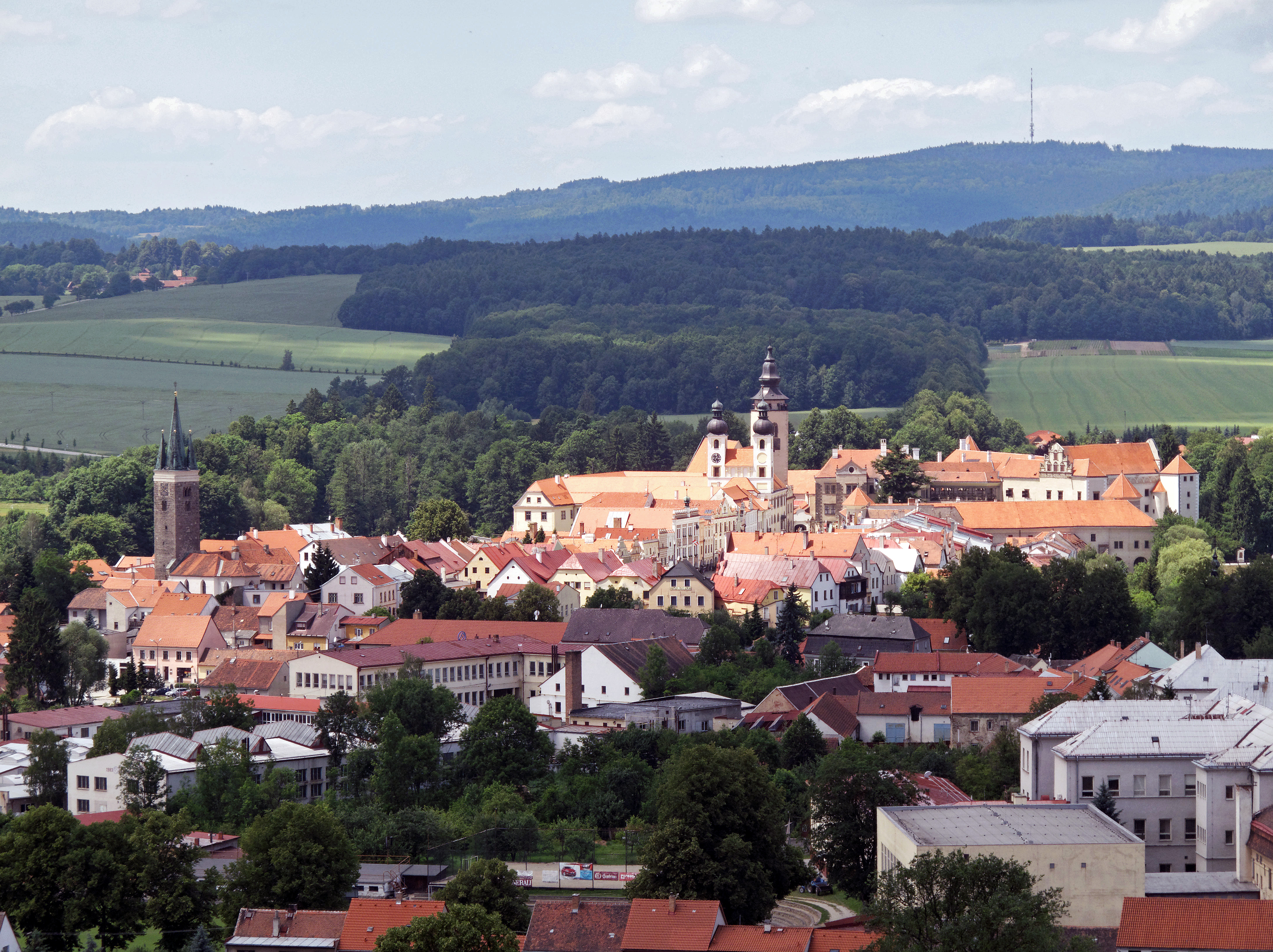 Telc viewed from Oslednice observation tower